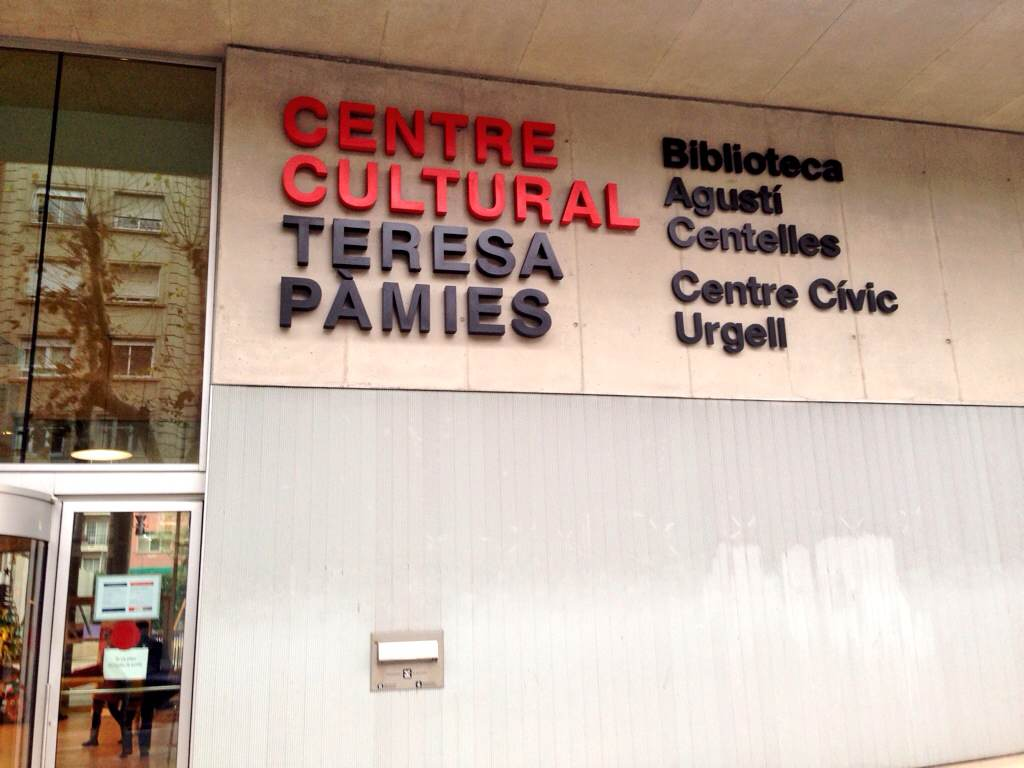 Esquerra de l'Eixample - Agustí Centelles Library